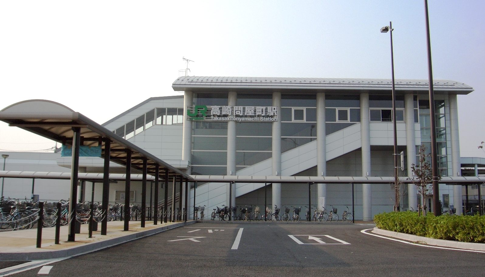 East entrance of Takasakitonyamachi Station on the Joetsu Line